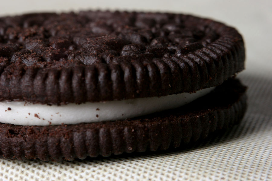 Oreo cookie